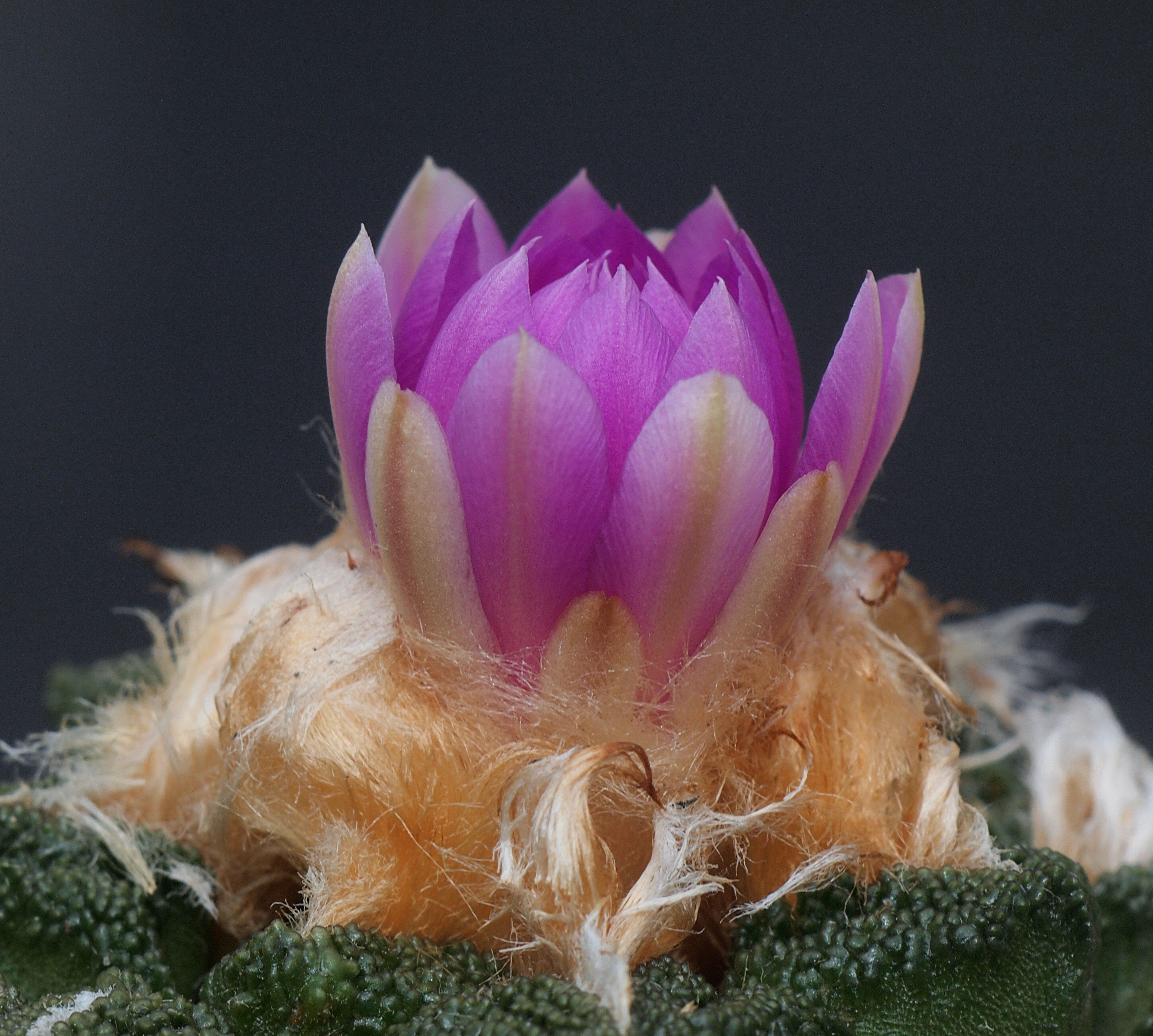 Ariocarpus bravoanus ssp. hintonii